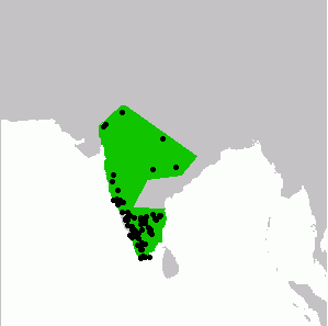 Distribution Map of Gallus sonnertii based on BirdSpot and Rasmussen & Anderton 2005. Birds of South Asia